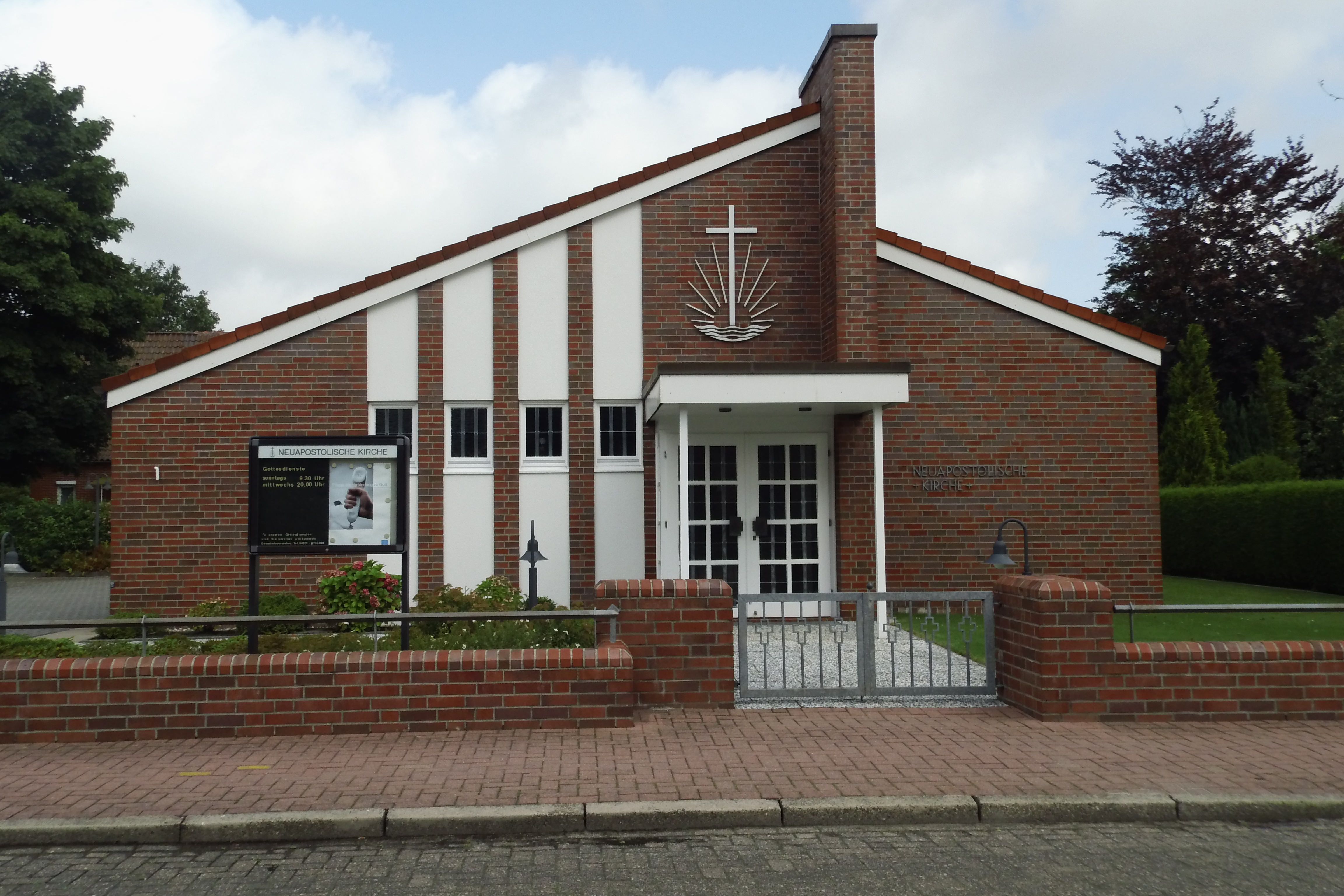 New Apostolic church in Hage (Eastfrisia), Lower Saxony, Germany